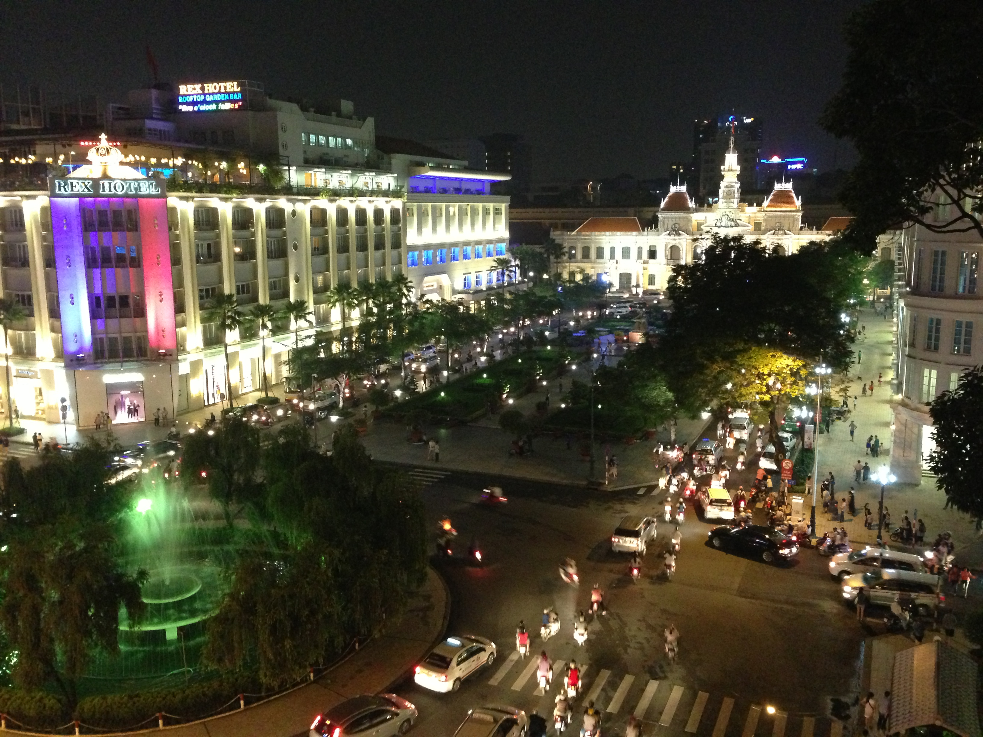 A night view of Rex Hotel and Nguyễn Huệ roundabout in Ho Chi Minh City, Vietnam, photographed from SH Garden restaurant on the third floor of 98 Nguyễn Huệ. On the right are Nguyễn Huệ boulevard and the People's Committee Building at the end of it.